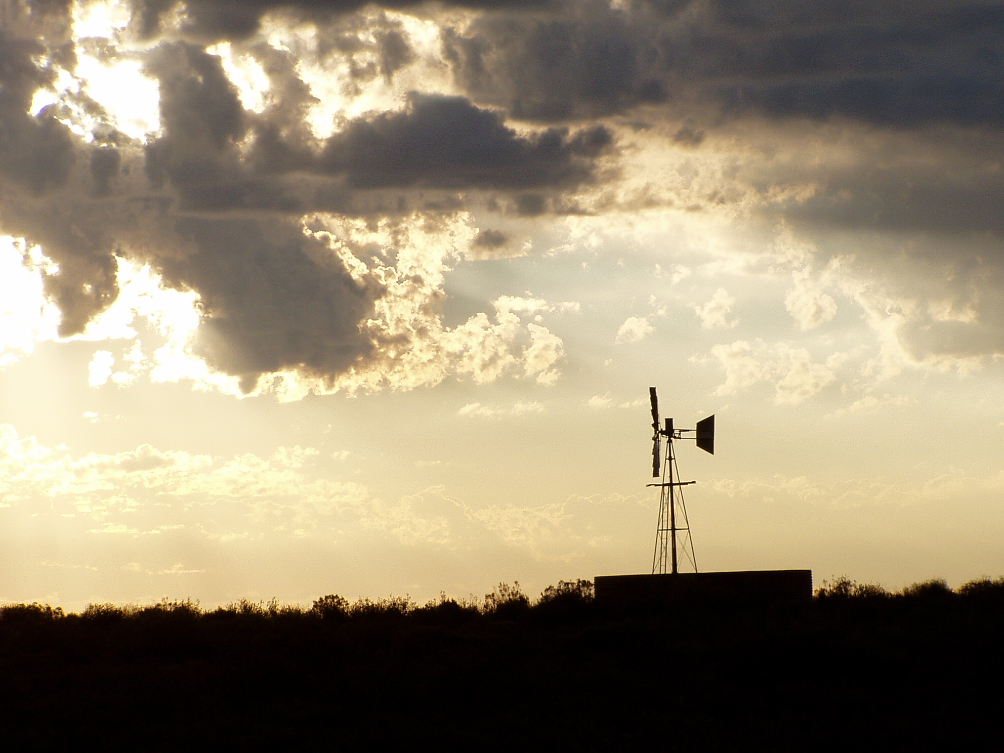 Sunset in the Great Karoo, near Sutherland, with a multi-bladed windpump, which has made permanent settlement and farming possible in this thristy land. These windpumps are iconic of the Great Karoo.